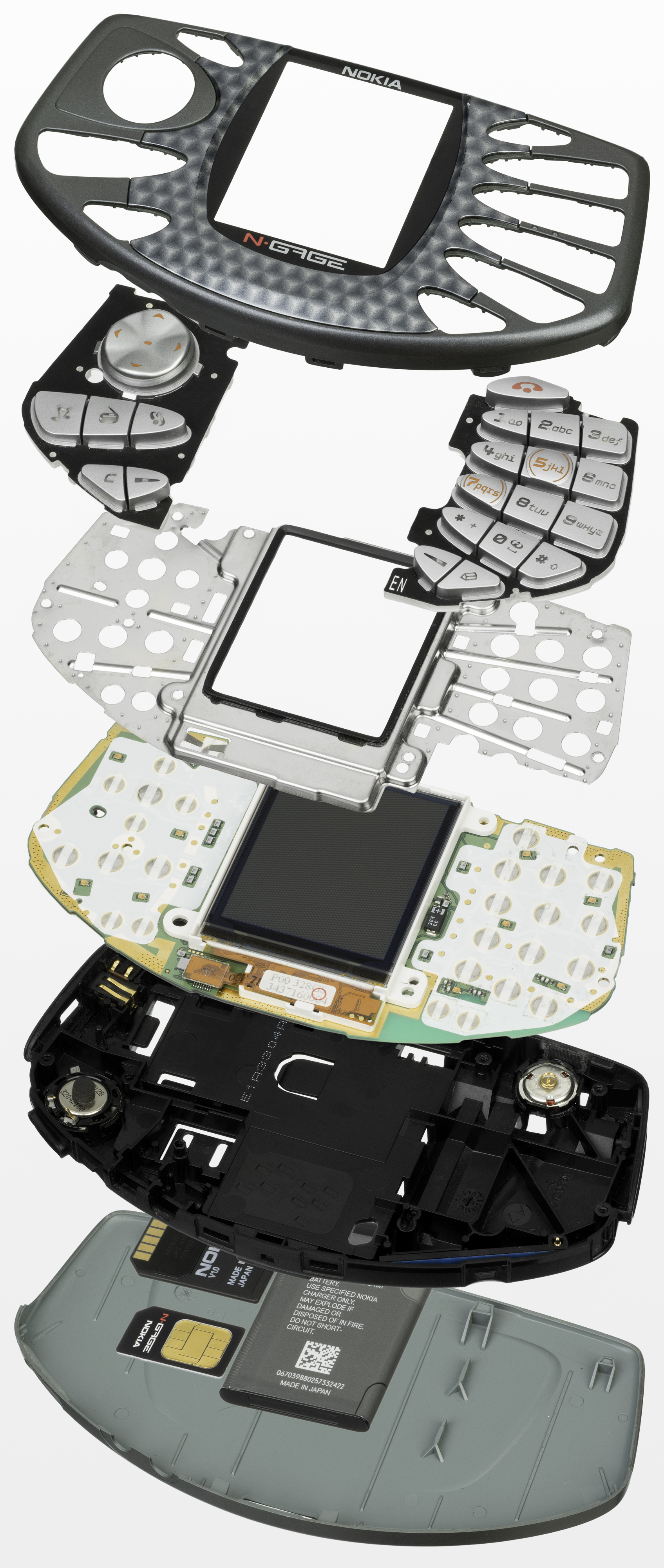 The Nokia N-Gage, a device that combined gaming, mobile phones and tacos. This mobile phone and handheld gaming hybrid came out in 2003 and was followed by the N-Gage QD a year later. It was not successful as a phone or a gaming platform. This is the Nokia N-Gage disassembled, showing the phone at each layer. Sorry about the dust and dirt, as I tried cleaning it multiple times but it still wouldn't come off.